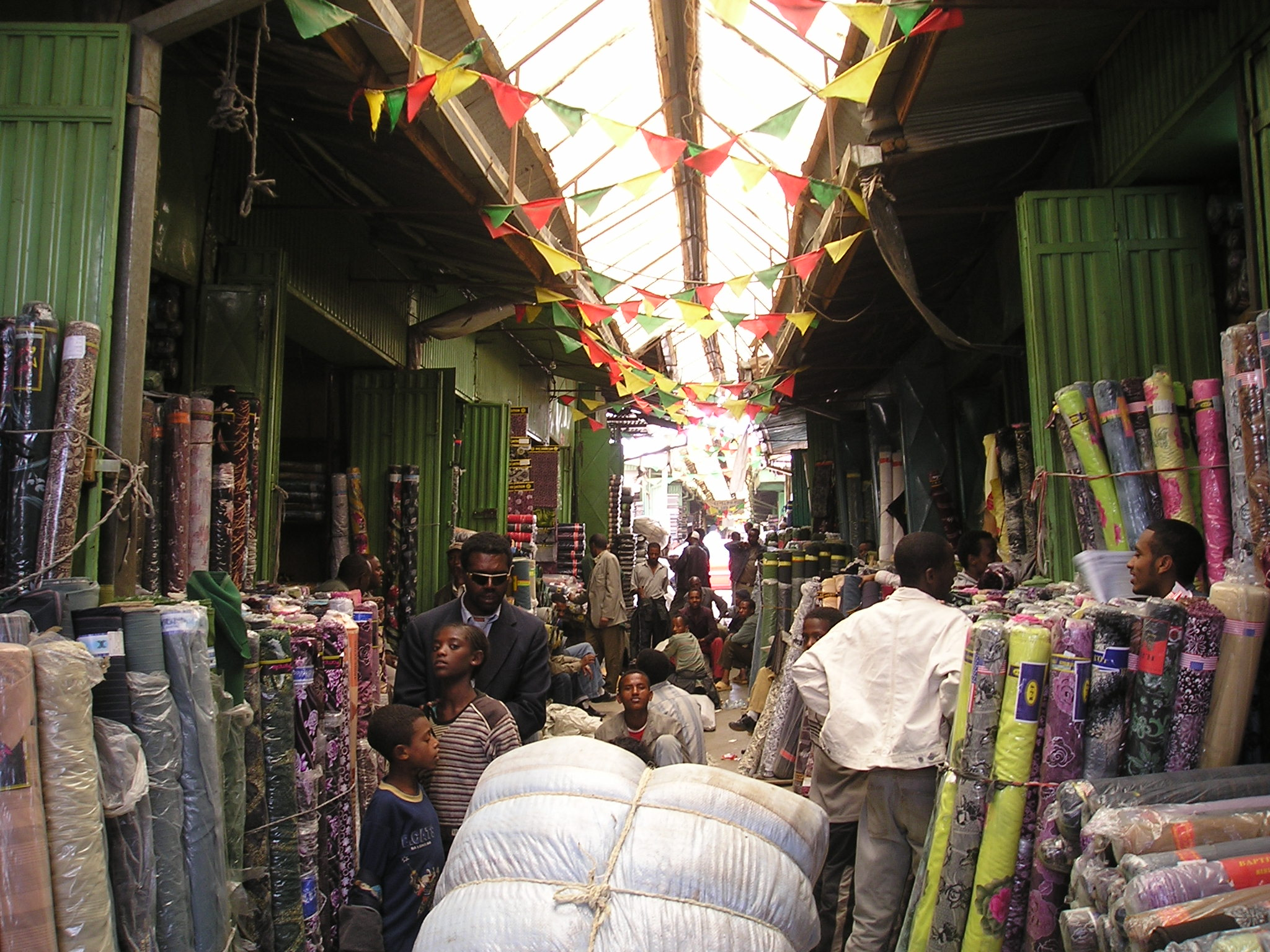 Mercato - market in Addis Abeba, 2008